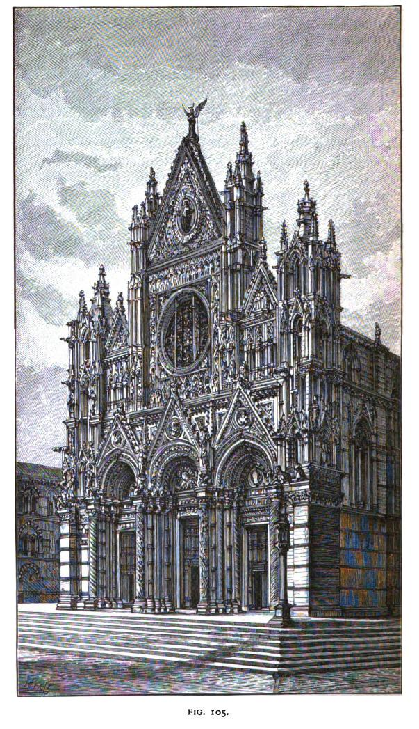 Fig 105 -Façade of the Cathedral of Siena, Development & Character of Gothic Architecture (1890)